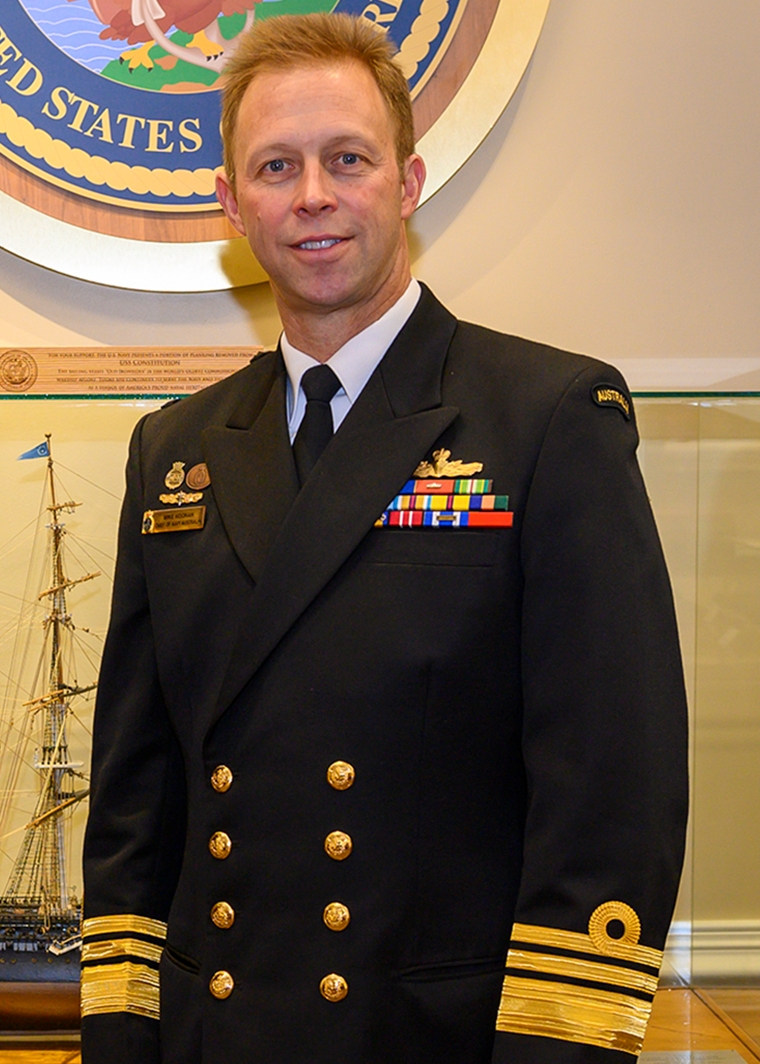 WASHINGTON (Feb. 7, 2020) Acting Secretary of the Navy Thomas B. Modly poses for a photo with Chief of Royal Australian Navy, Vice Adm. Michael Noonan before a meeting at the Pentagon in Washington, D.C. (U.S. Navy photo by Mass Communication Specialist 2nd Class Alexander C. Kubitza/Released)